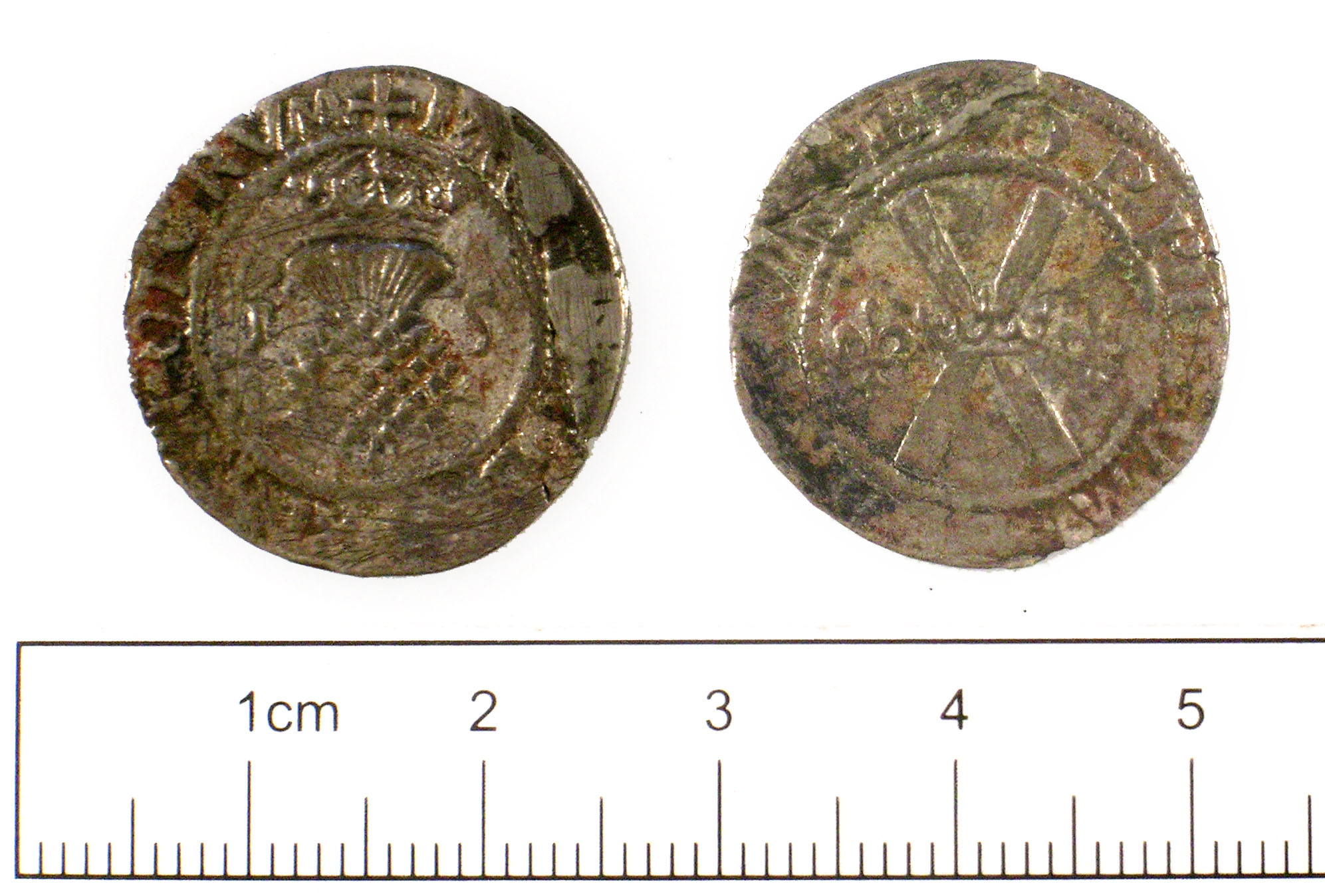 Silver Scottish billon bawbee of James V, third coinage, 1538-42.